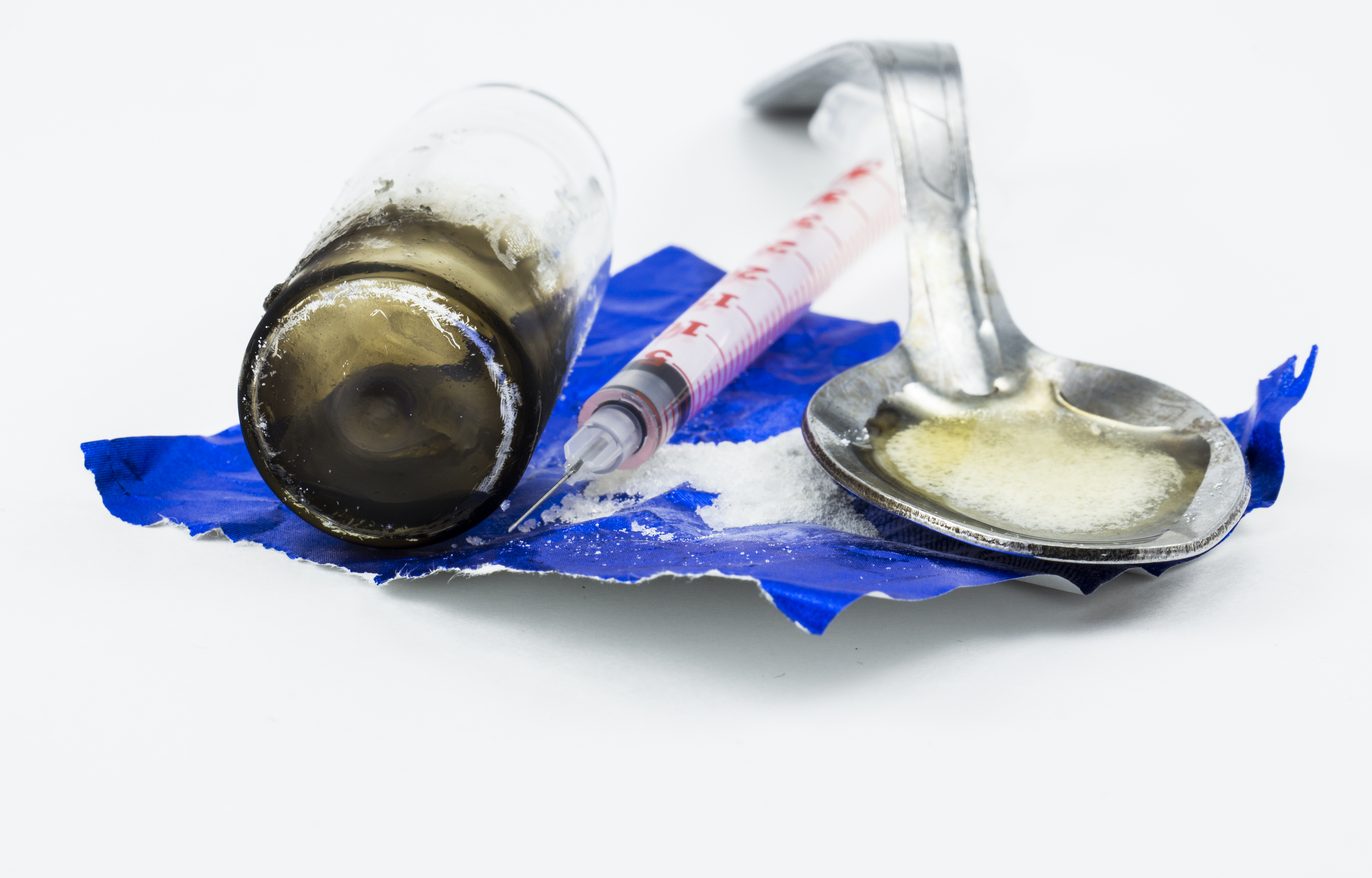 Heroin. Narcotic drug. Preparation of a drug by dissolving it in water. Treatment of heroin addiction